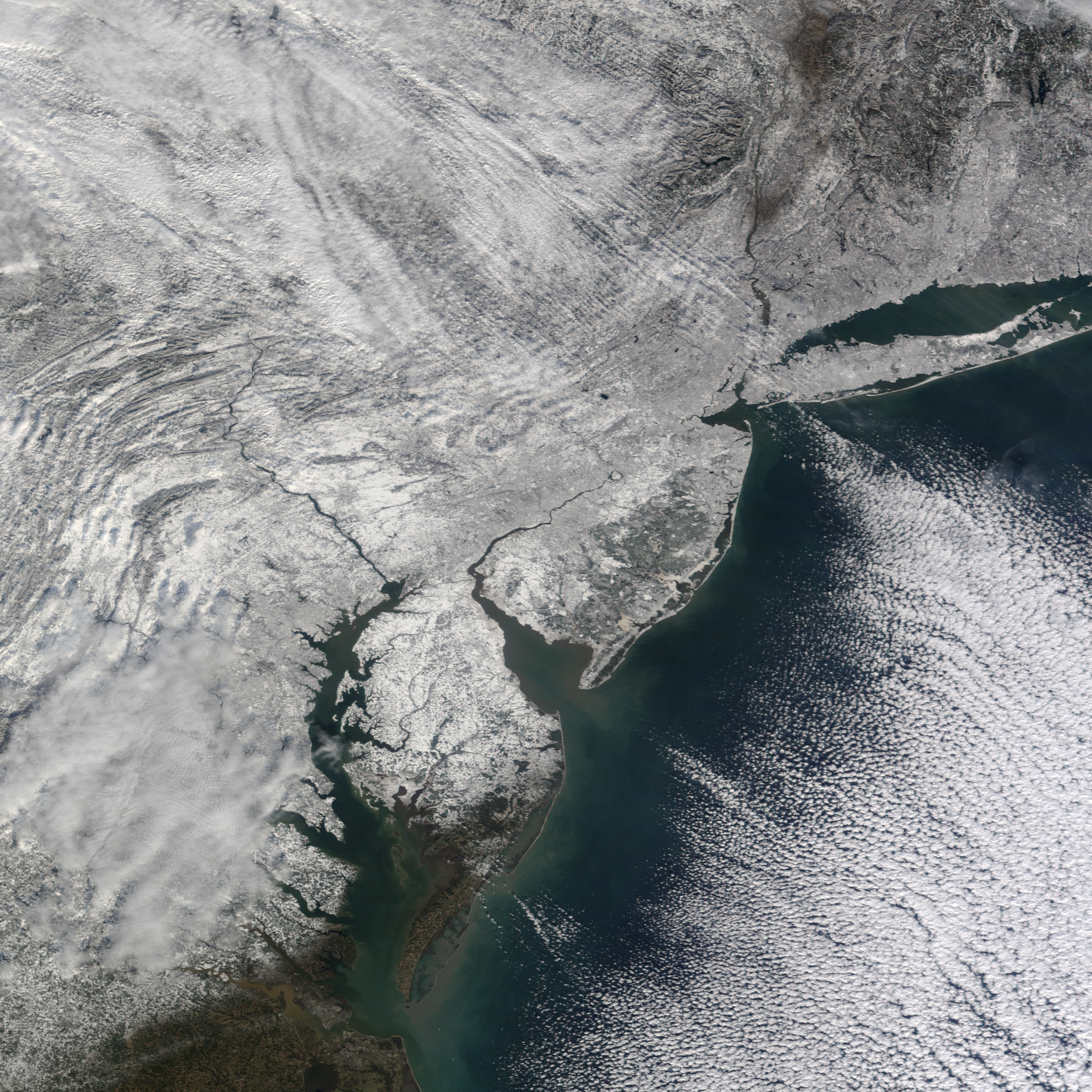 "A powerful nor’easter ensured that the Mid-Atlantic and Northeastern United States were cloaked in white on the first day of Northern Hemisphere winter in 2009. This image from the Moderate Resolution Imaging Spectroradiometer (MODIS) on NASA’s Terra satellite shows the Chesapeake Bay area on December 21."